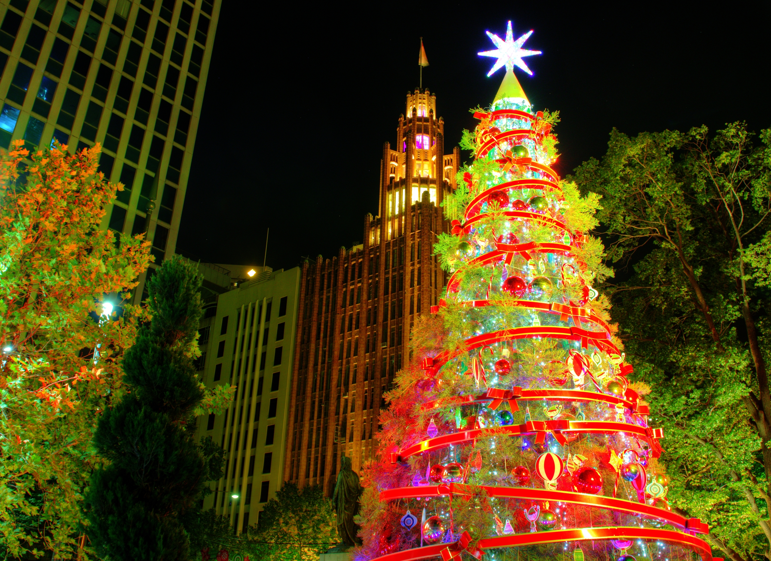 Picture taken at City Square (currently named Christmas Square), in Melbourne, AUS. I plan to take some more Christmas themes decorations around the city and elsewhere. By the way, in the background is the Manchester Unity building, the lights up on top switches off around 10pm. ( Some people will be disappointed when searching for "Manchester" "Christmas" ends up getting a Christmas tree in Melbourne).